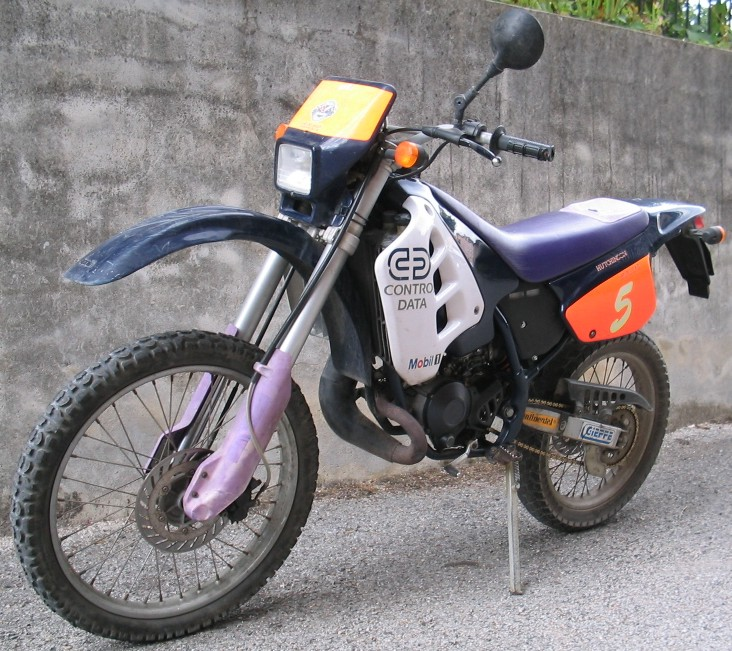 Front View left the bike